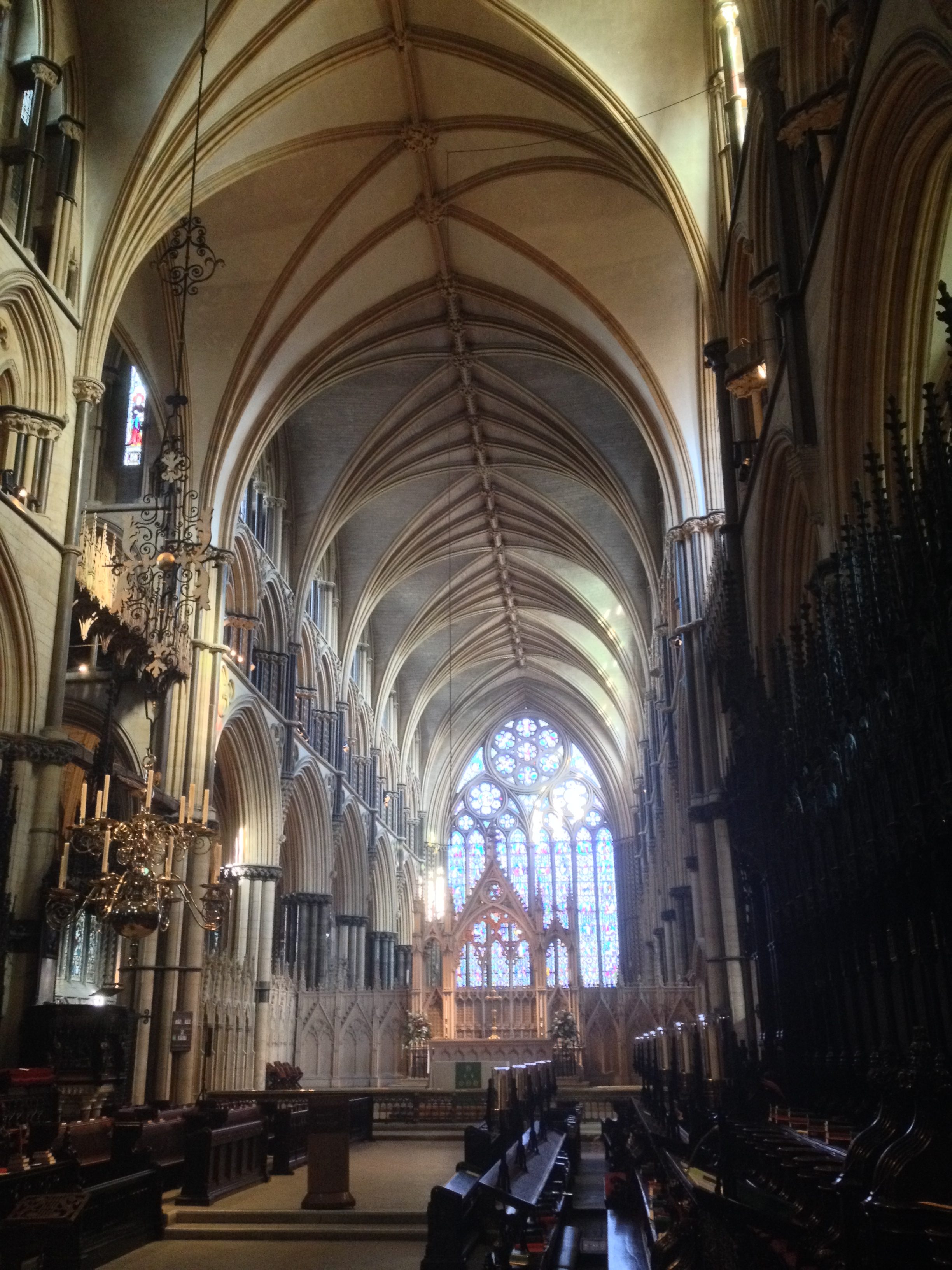 Lincoln Cathedral Choirs